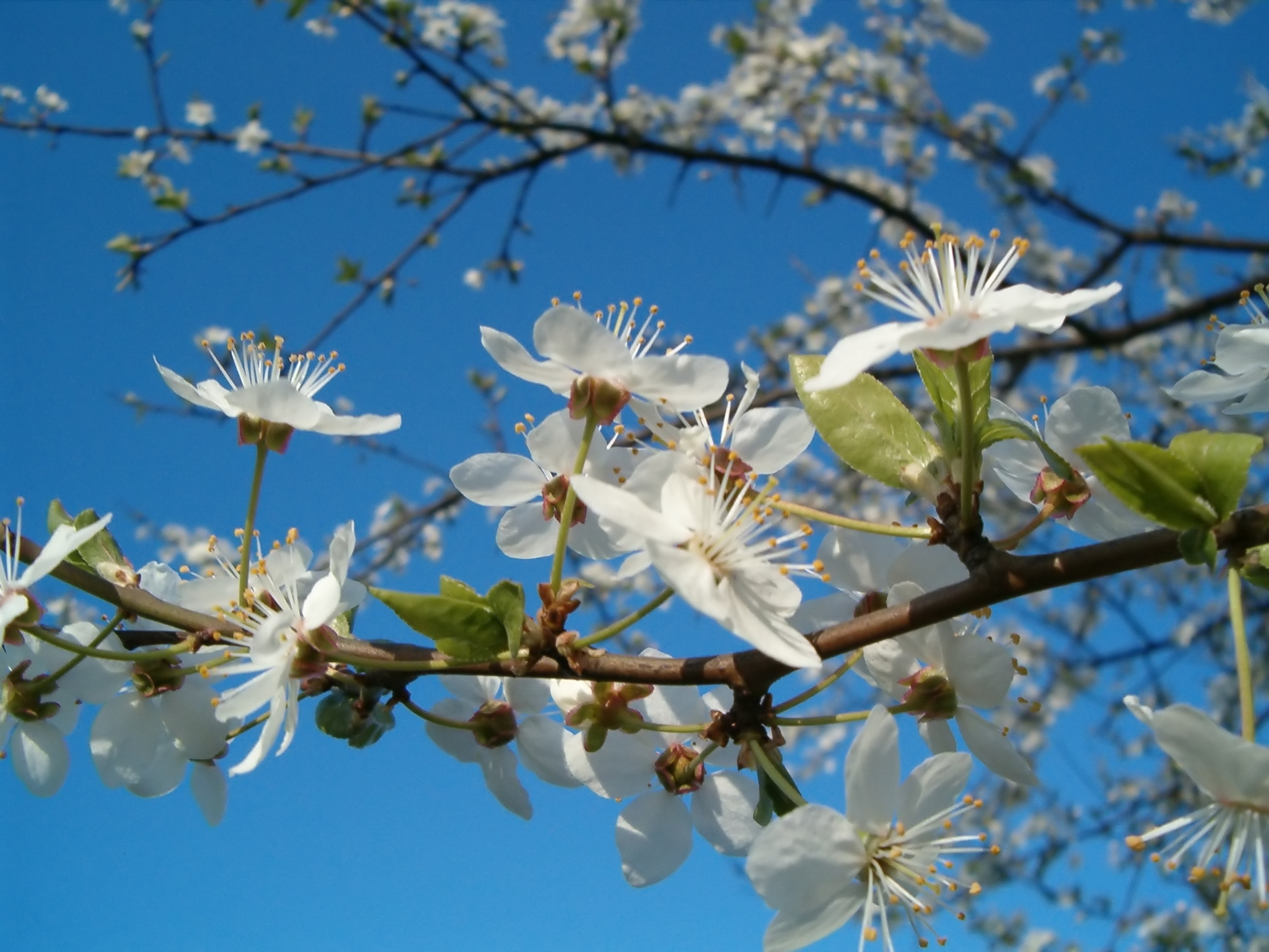 Flowers of fruit tree